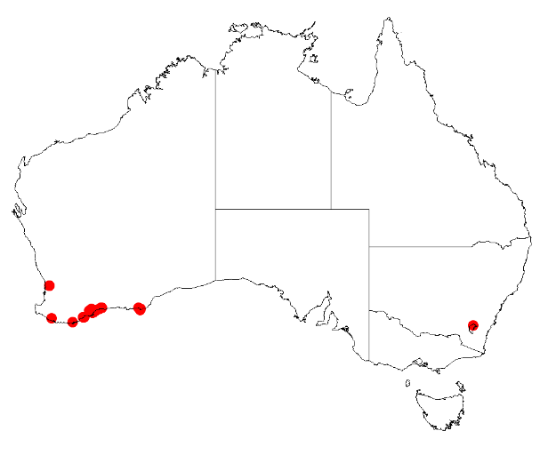 Acacia empelioclada Occurrence data from Australasia Virtual Herbarium downloaded from on 8 December 2018